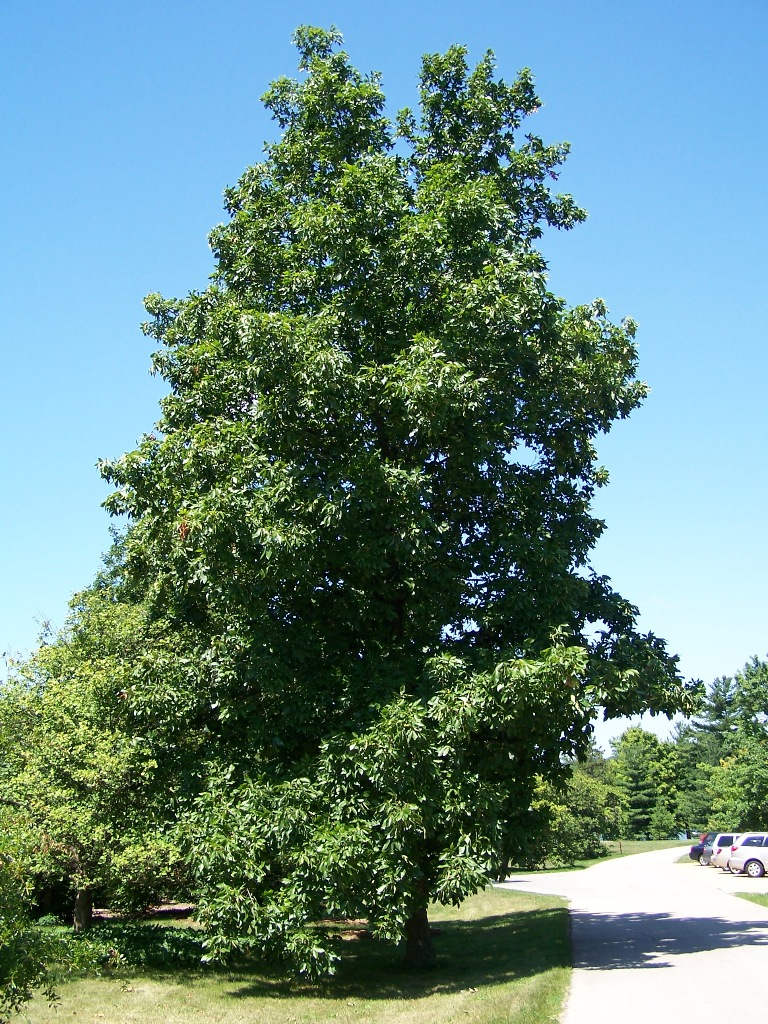 Hickory Tree, genus Carya, Morton Arboretum accession 29-U-10